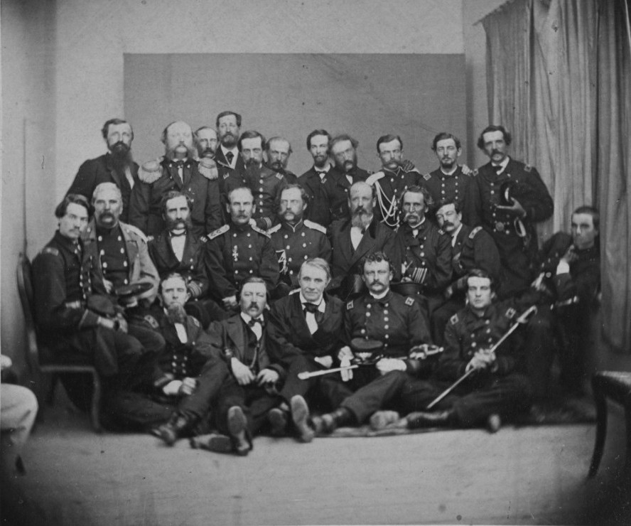 Assistant Secretary of the Navy Gustavus V. Fox (6th from left, 2nd row) with Russian officers and officers of USS Miantonomoh and USS Augusta, during his visit to Europe in 1866. Others identified in this group are: Captain Alexander Murray, USN, Commanding Officer, USS Augusta (3rd from left, 2nd row); and Commander John C. Beaumont, USN, Commanding Officer, USS Miantonomoh (7th from left, 2nd row). U.S. Naval History and Heritage Command Photograph.